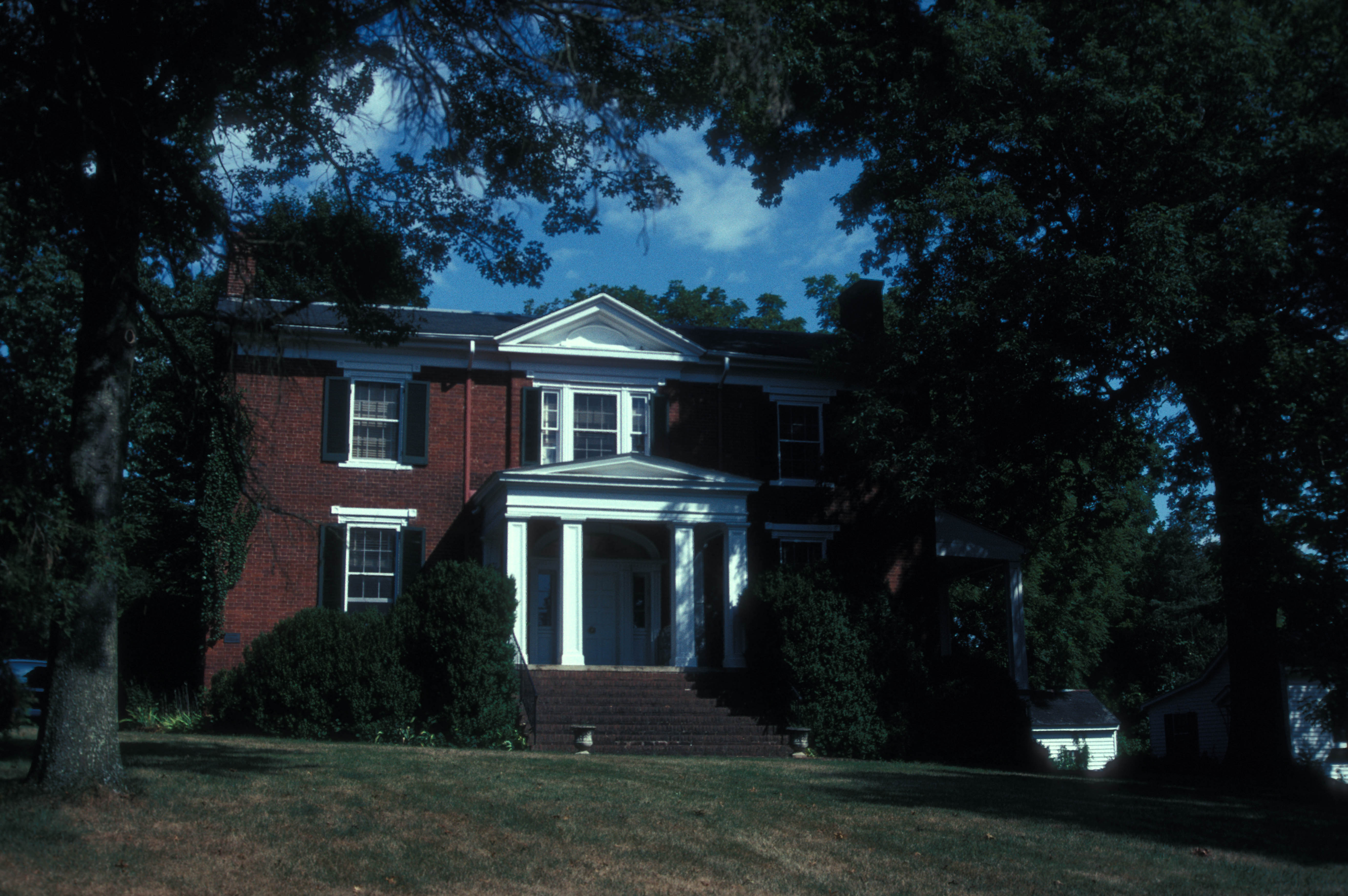 HOME OF THE LATE VIRGINIA MOORE, WRITER AND FORMER wife OF LOUIS UNTERMEYER, POET LAUREATE OF THE U.S. GENERALS CUSTER AND SHERIDAN STAYED IN THIS HOUSE.